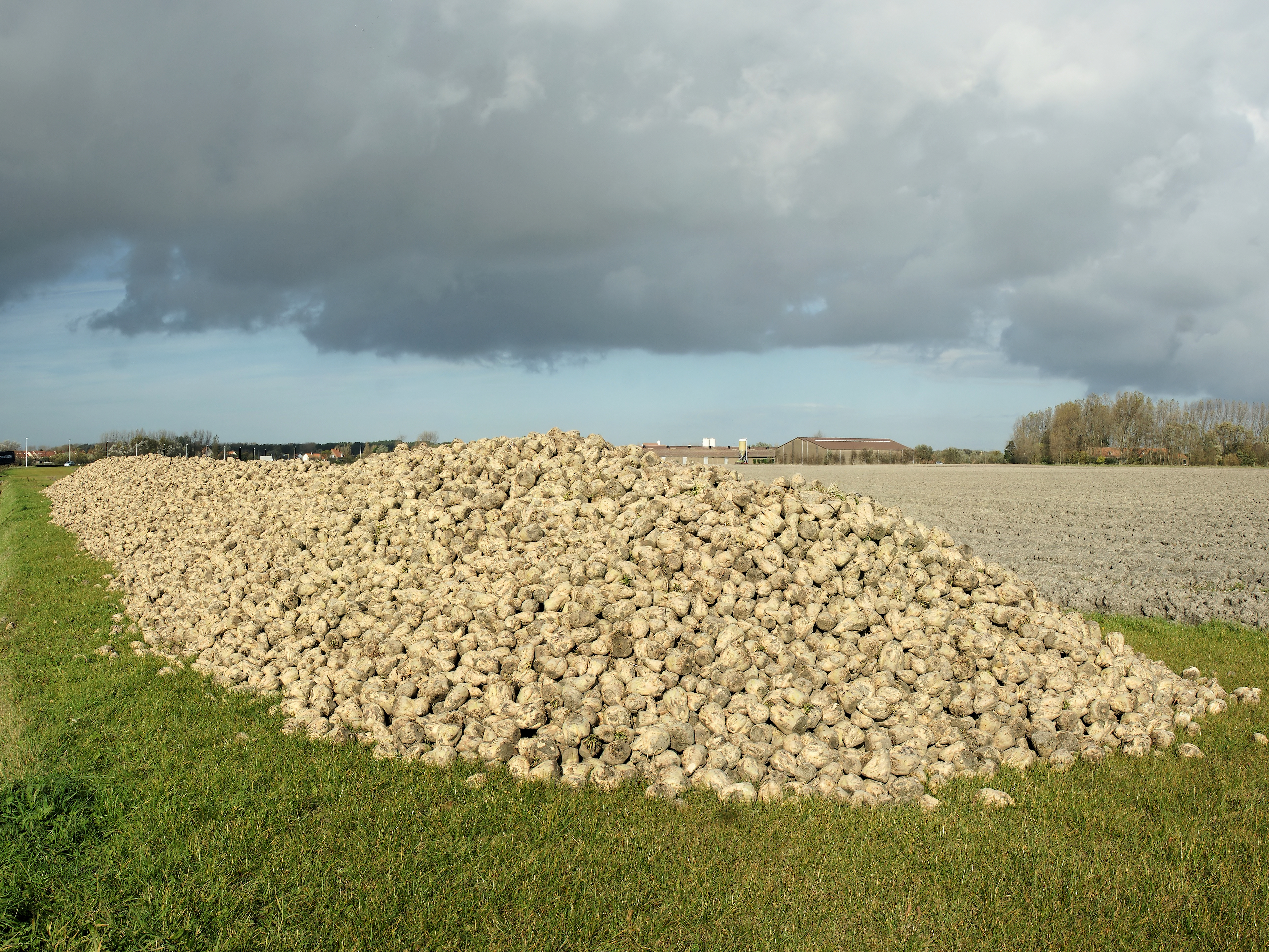 Sugar beet clamp at Vlissegem, Belgium